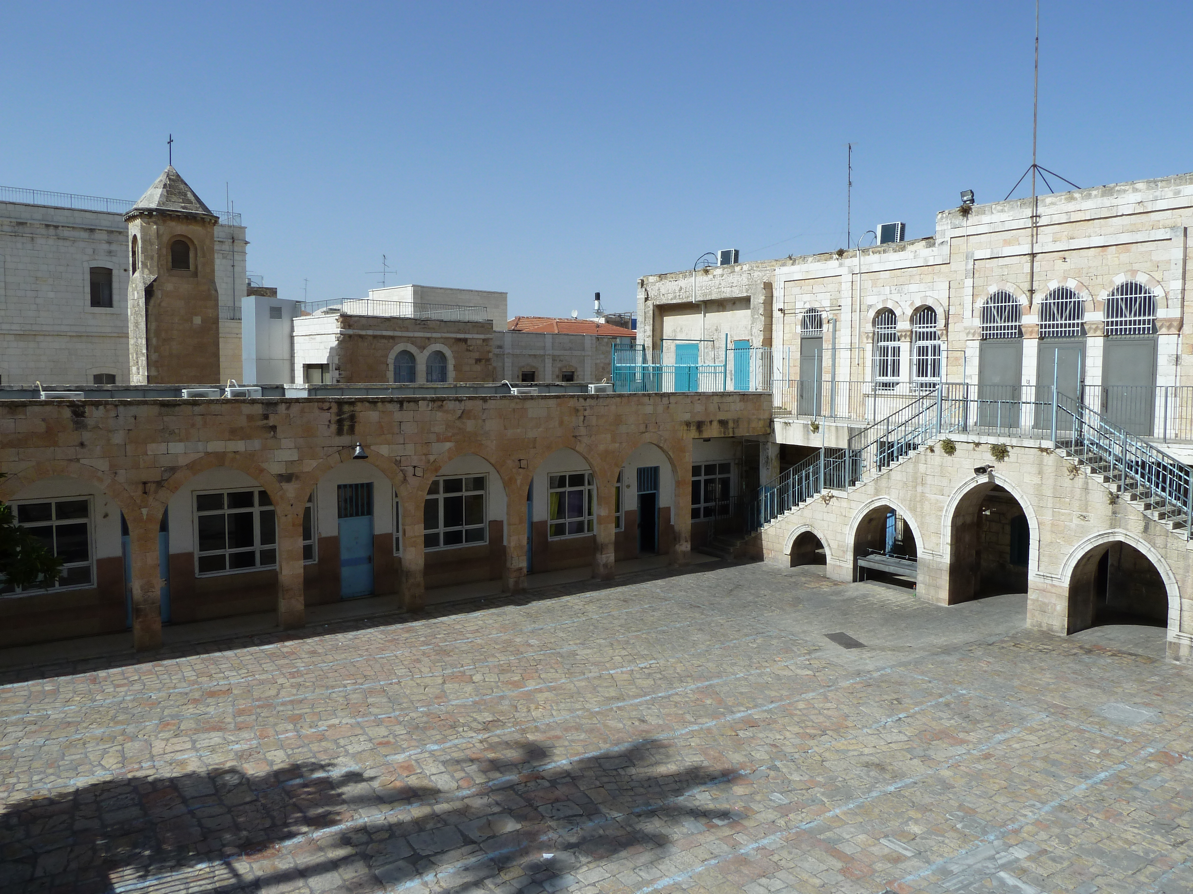 Old Jerusalem, Al Umariya Elementary School, courtyard, high-angle shot & Church of the Flagellation bell tower